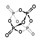 Molecular structure of P4O10 (phosphoric anhydride) H Padleckas created this image file in 2005 especially for use in phosphoric articles in Wikimedia. H Padleckas 21:12, 21 November 2006 (UTC)